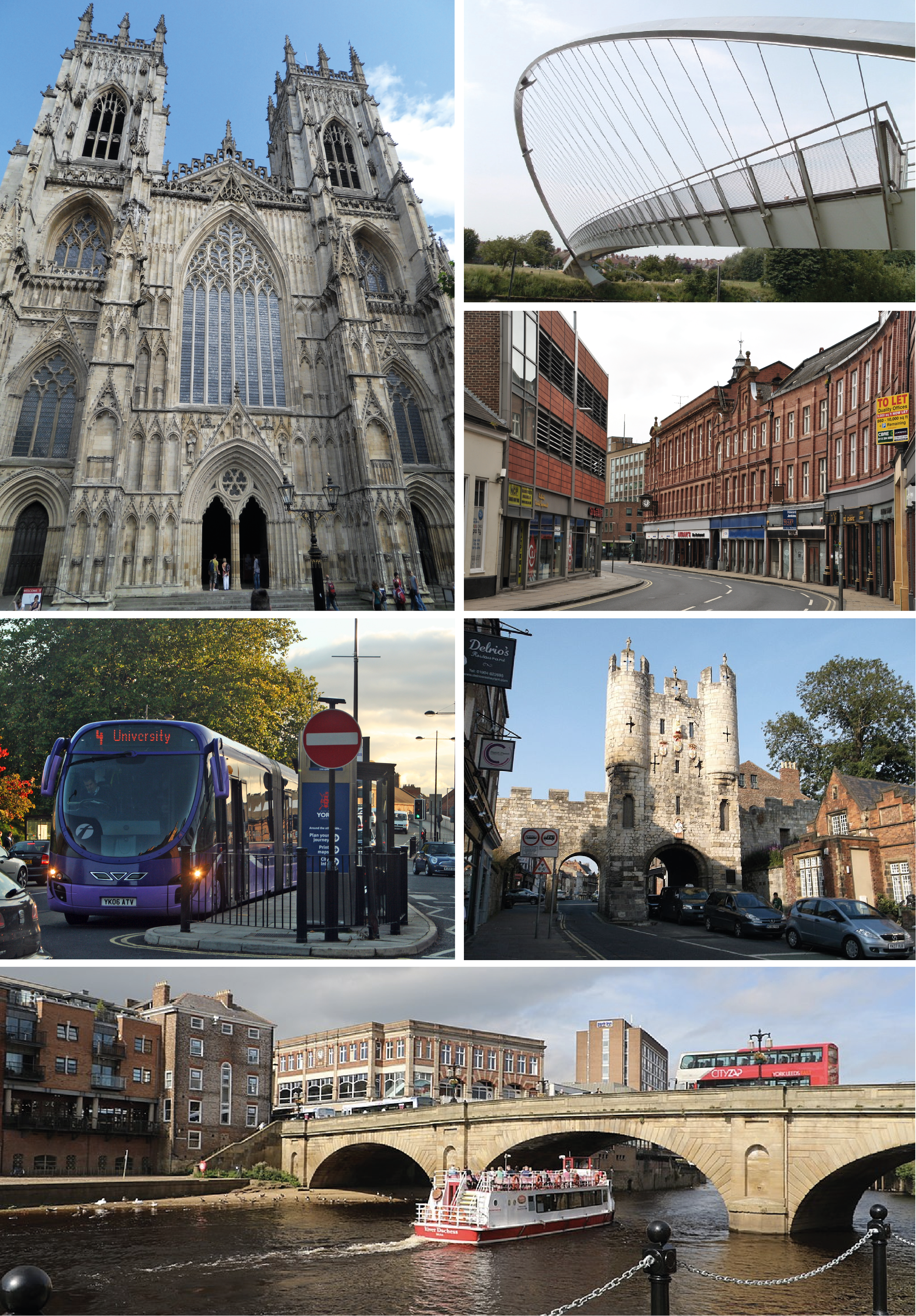 Clockwise from top left: York Minster, Shambles Market, Magistrates Court, River Ouse and York Station